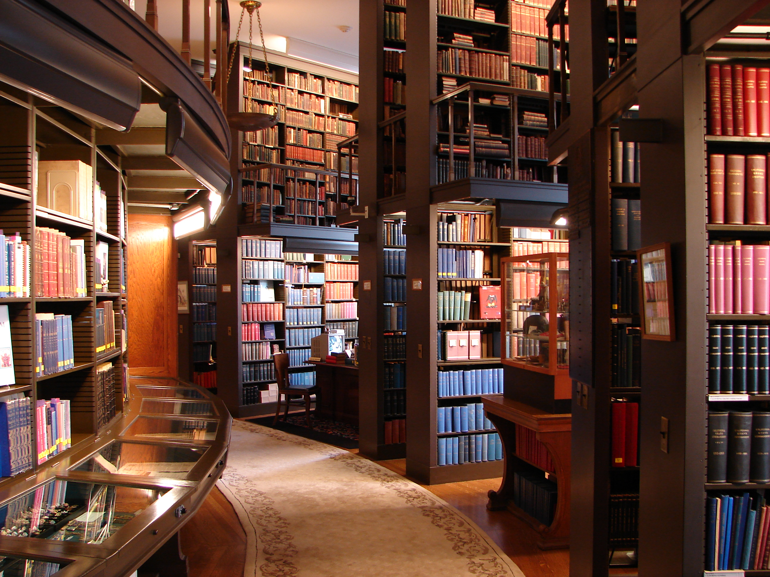 The House of the Temple's library located at 1733 16th Street, NW in the Dupont Circle neighborhood of Washington, D.C.